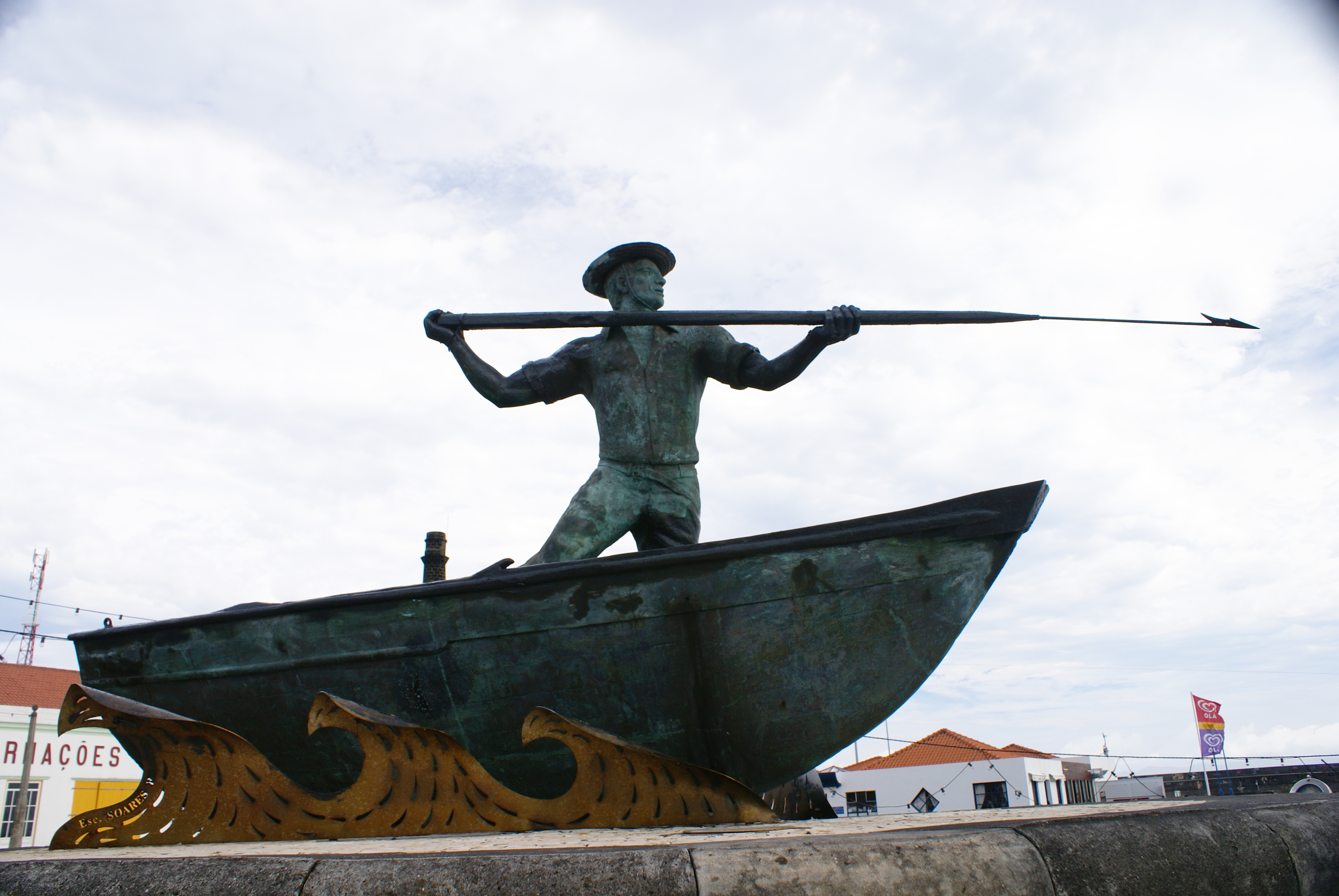 Monomento ao Baleeiro, concelho de São Roque do Pico, ilha do Pico, Açores, Portugal